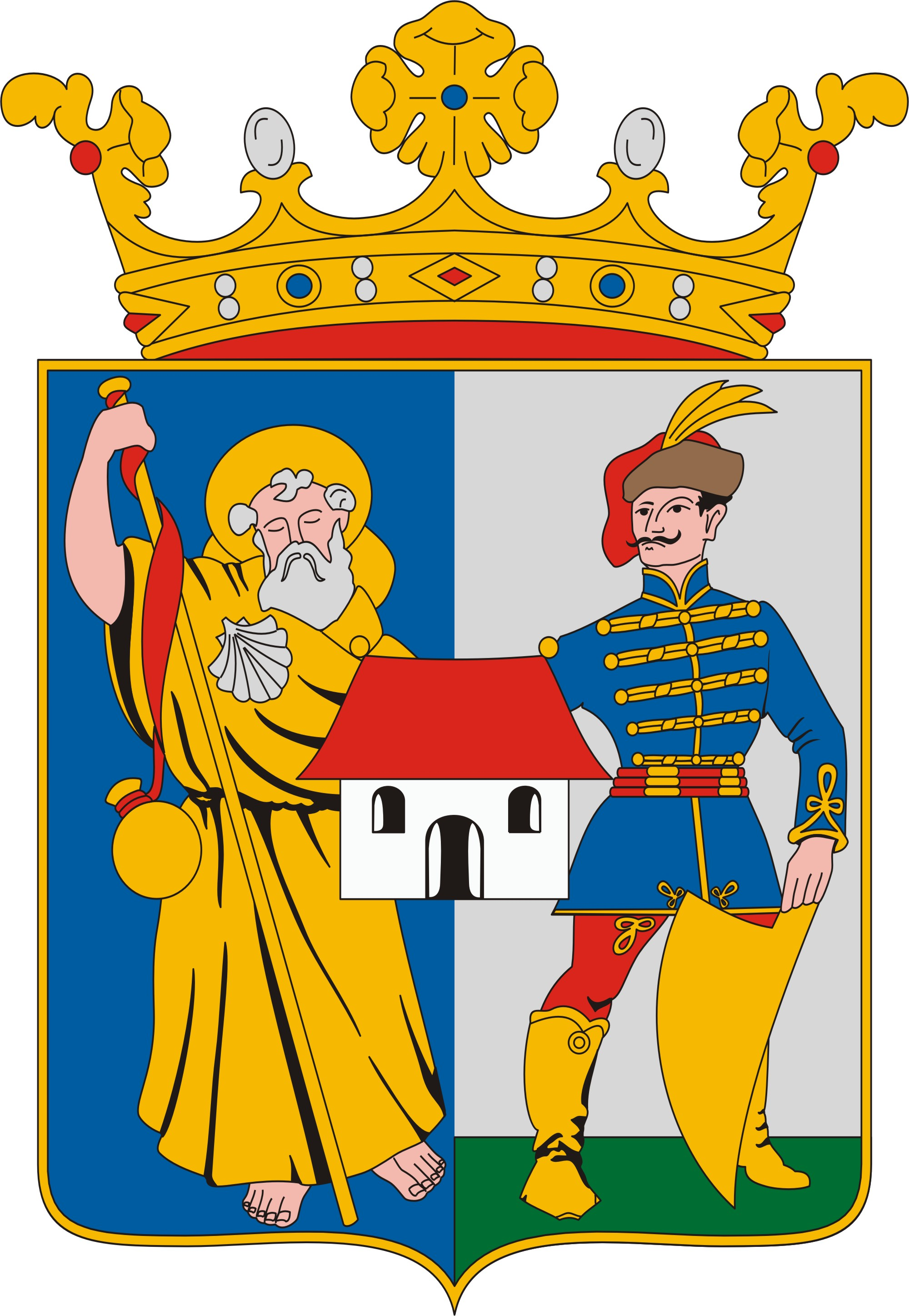 Coat of arms of Jakabszállás, Hungary